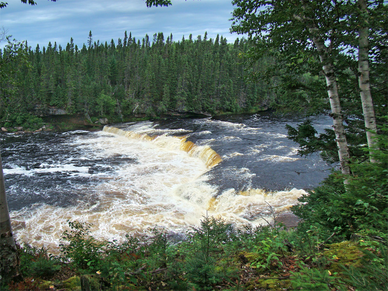 Sir Richard Squires Memorial Provincial Park, Western Newfoundland, Canada. The Big Falls, where in the summer, you could see salmons jump to the pools upstream to spawn.